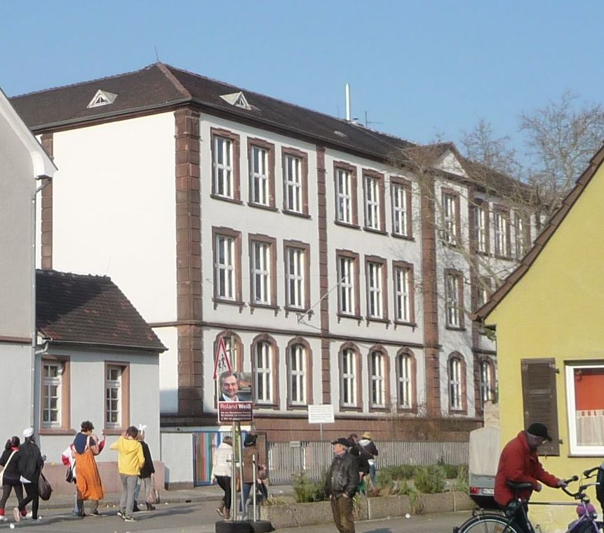 Mannheim-Sandhofen